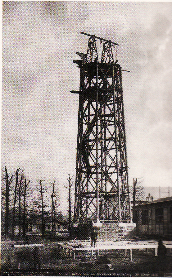 Water tower for the the high-pressure culvert